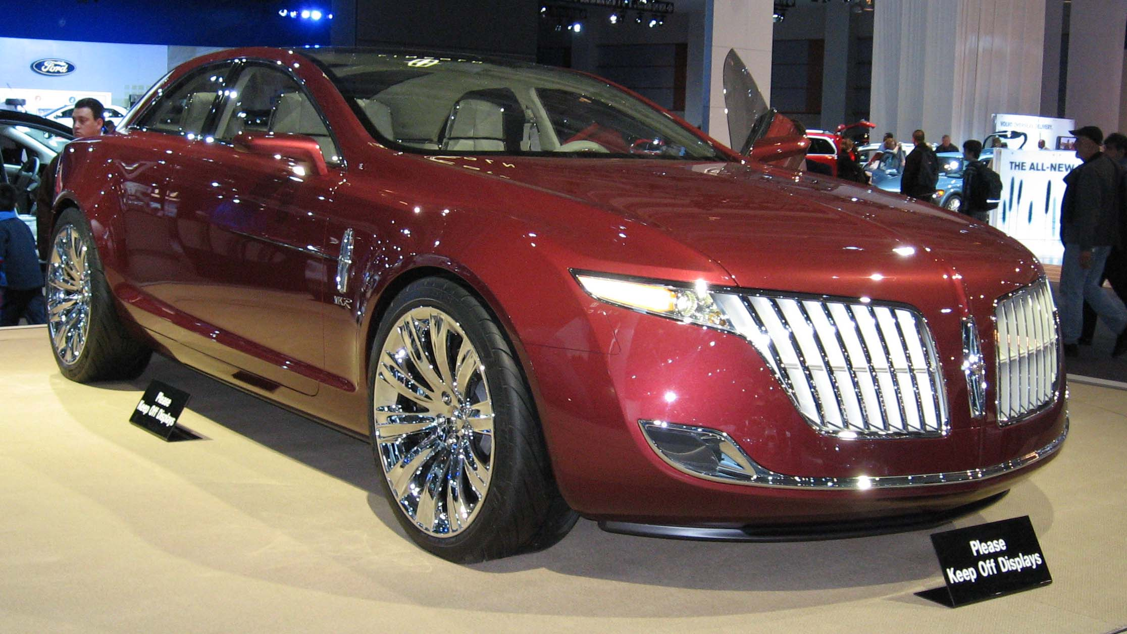 Lincoln MKR photographed at the Washington Auto Show.